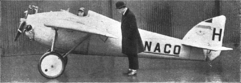 Side view of Pander D, taken at Croydon on or about 28 April 1925